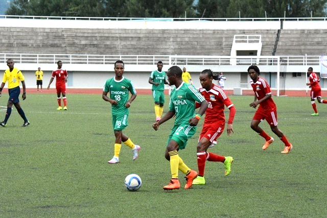 International football match between Seychelles and Ethiopia at Stade Linité, Victoria, Seychelles